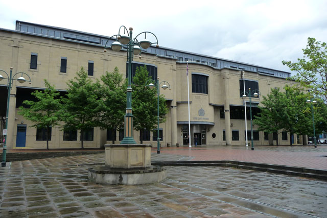 Bradford Law Courts, Exchange Square The Crown Court complex was built on the site of the former Bradford Exchange station.